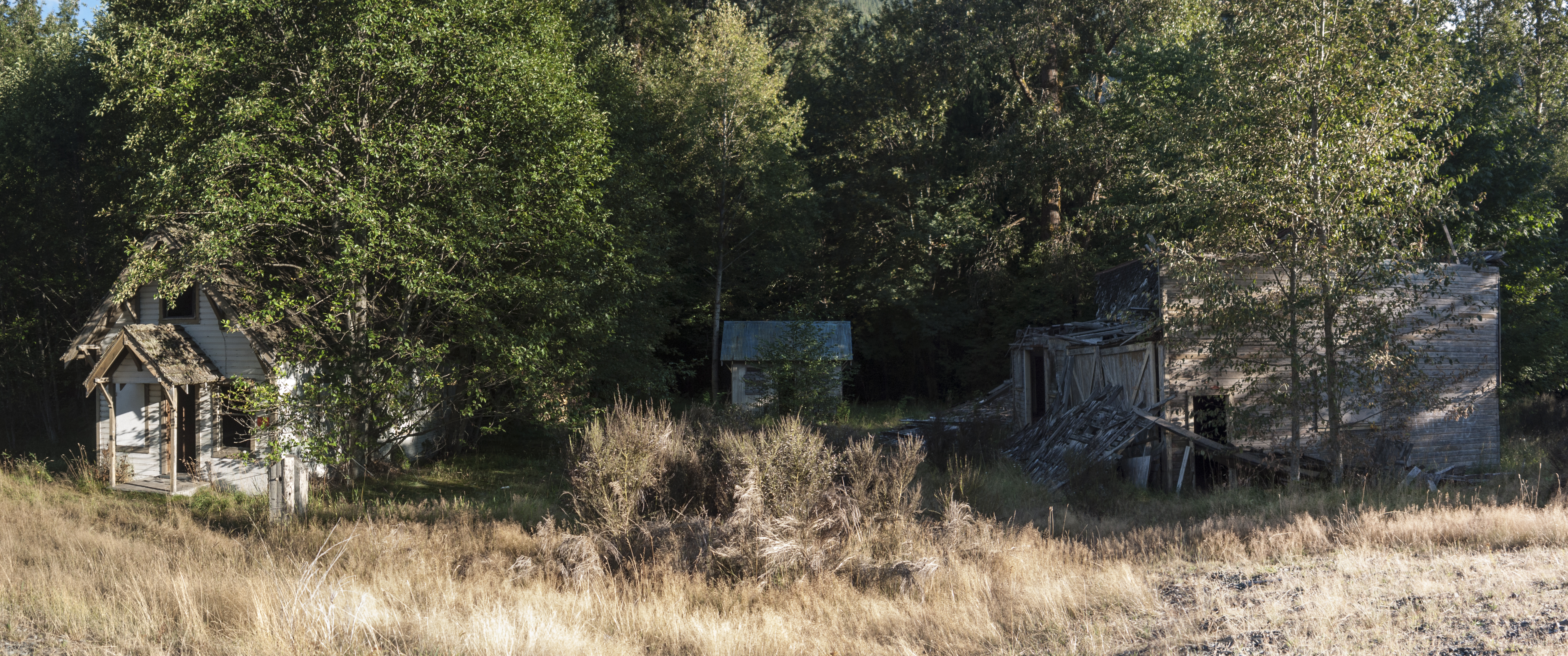 Ghost town of Lester, WA. Photographed using Panasonic GF2.